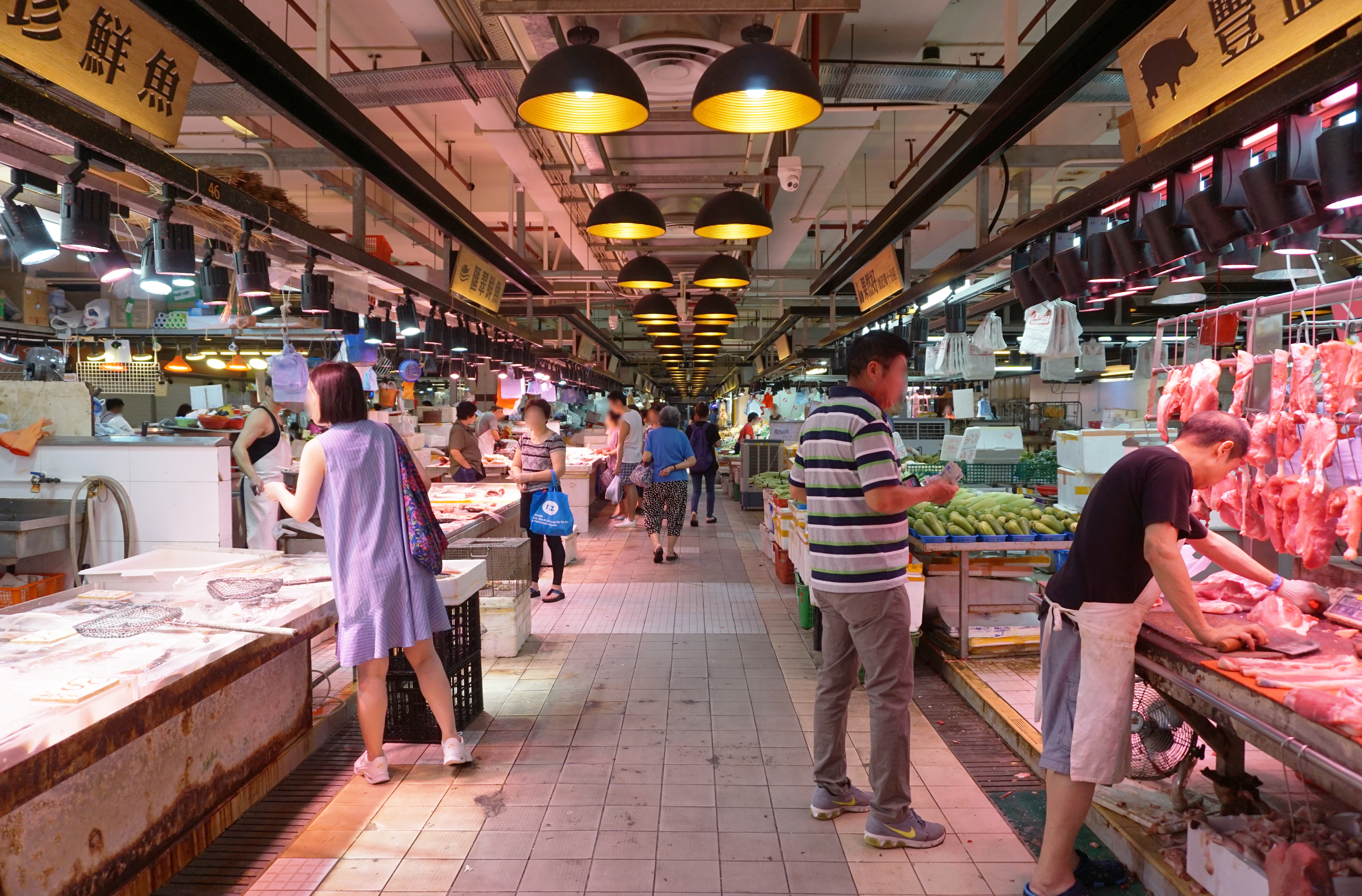 Tsui Lam Market Place in Tseung Kwan O, Hong Kong.